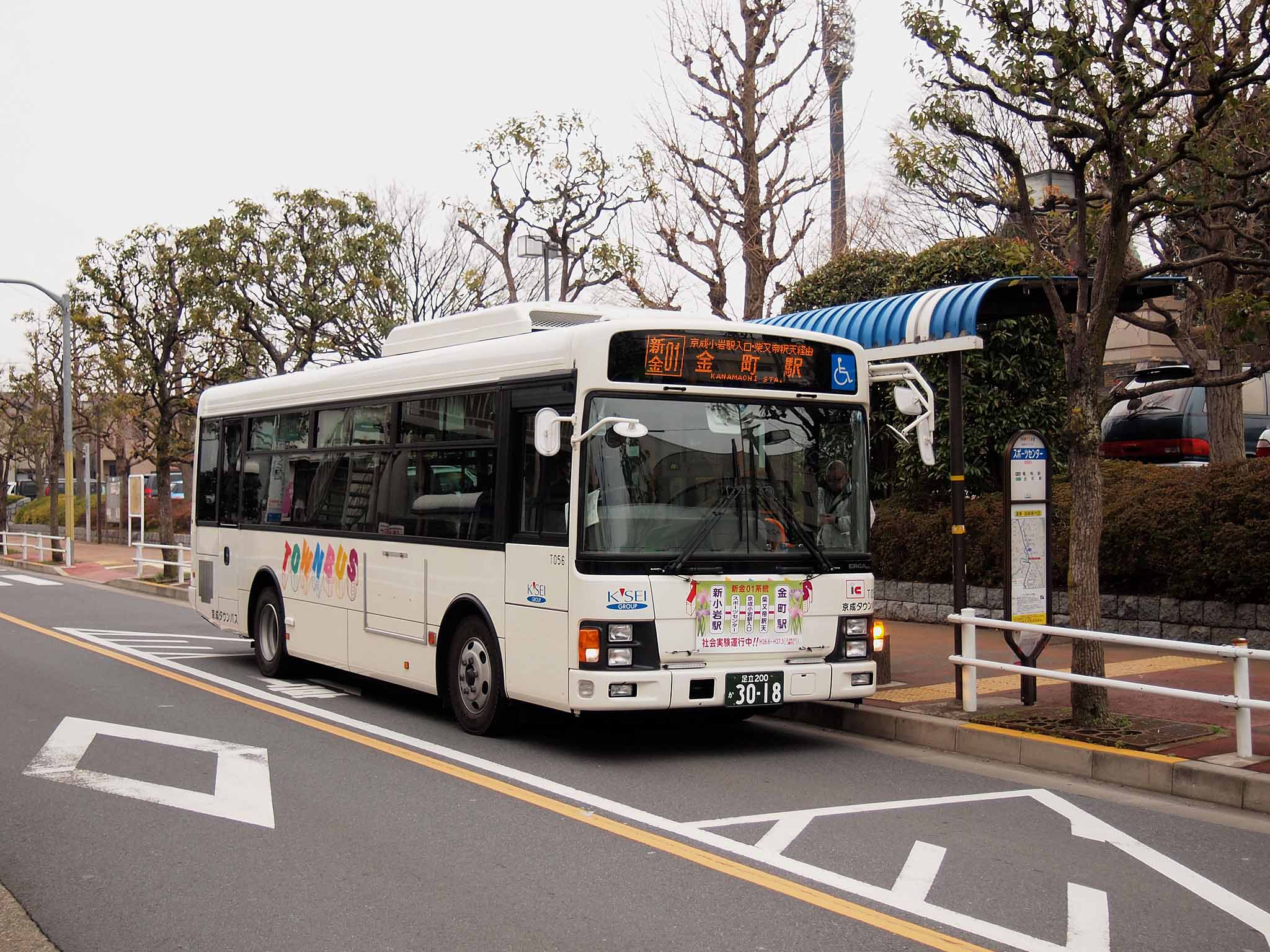 Shinkin Line, operated at between Shin-koiwa and Kanamachi, operated by Keisei Town Bus and Keisei Bus. Model: Isuzu Erga Mio SKG-LR290J1 License plate: TKA200 KA-894 Place: Municipal Sports Center, Okudo, Katsushika Ward, Tokyo Japan